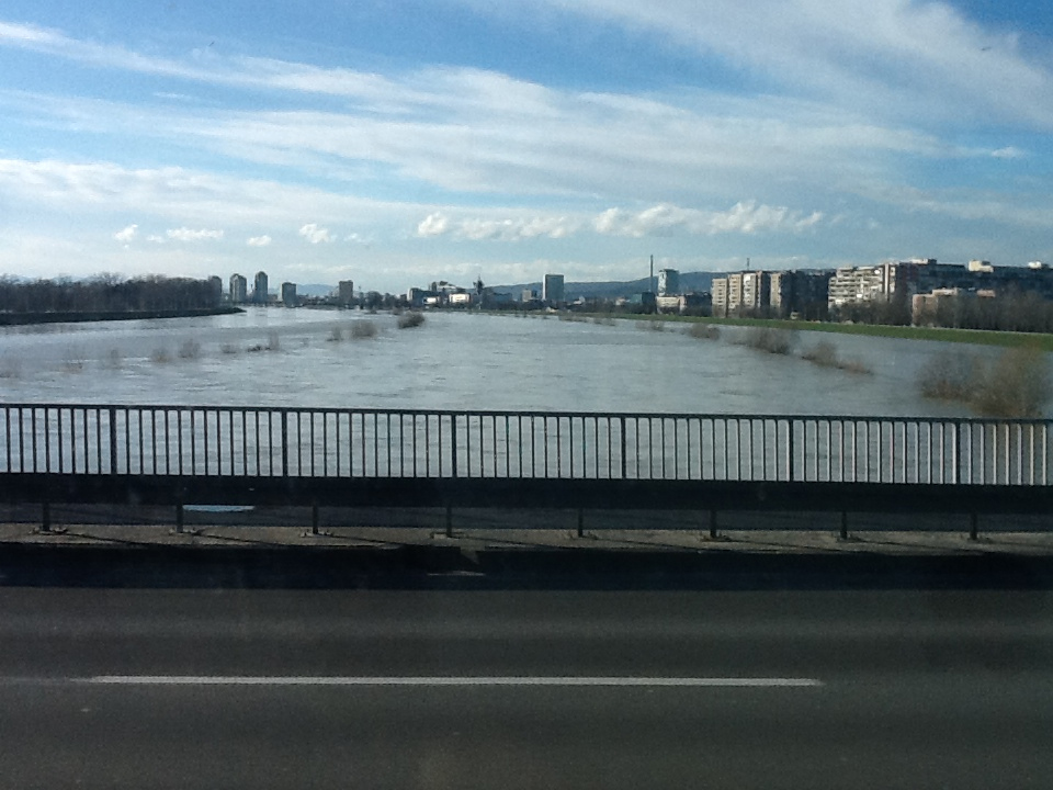 River Sava after record rainfall and melting snow on February 12th, 2014 reaches the levees, expanding from the usual 100±10 m diameter to almost three times its size.